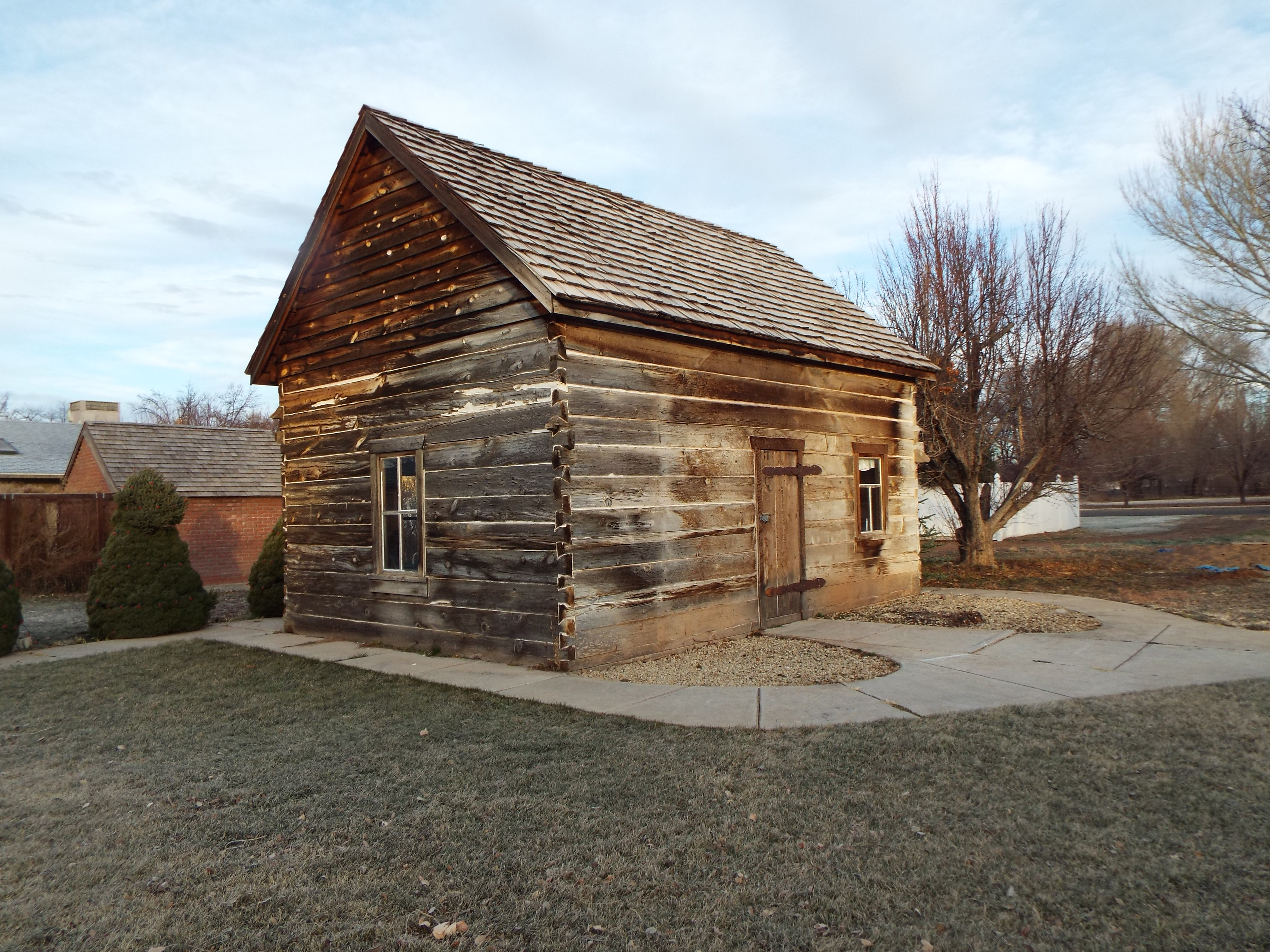 The William Jordan Flake Cabin-1858 in Snowflake, Arizona